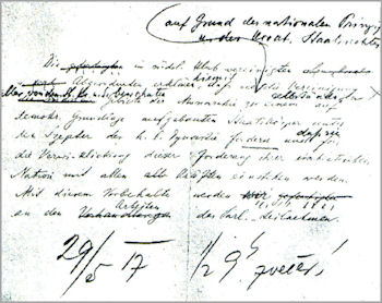 Majniska Declaration